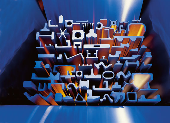 profile cross section